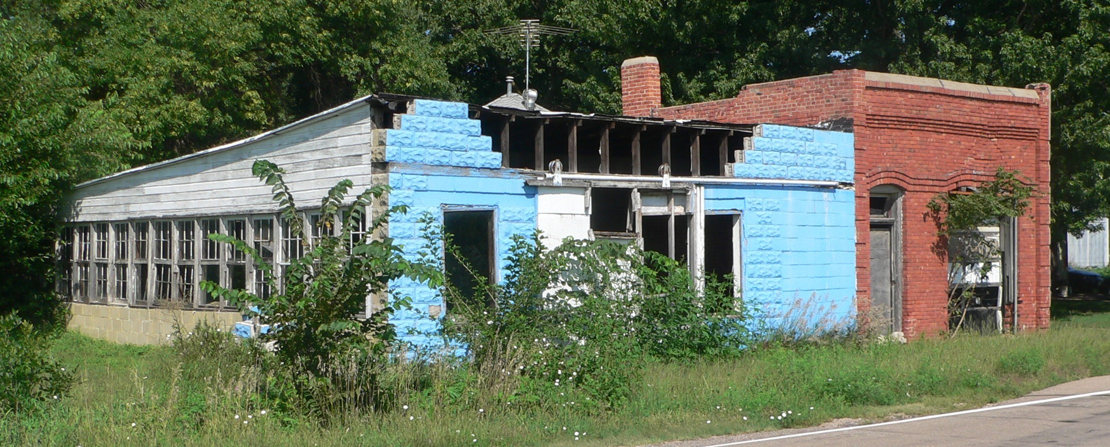 Buildings on west side of Showboat Boulevard north of Hackberry Street in Pauline, Nebraska; seen from the southeast.